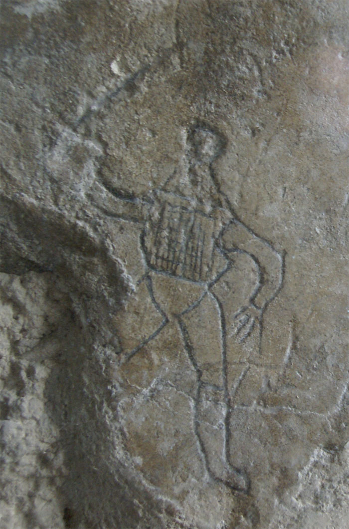 Huntly Castle (Aberdeenshire, Scotland) - graffiti in palace cellar